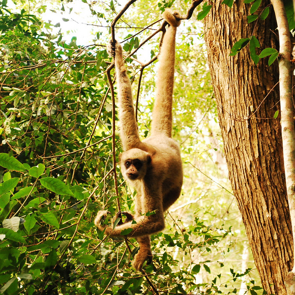 An adult female northern muriqui (woolly spider monkey), Brachyteles hypoxanthus, in the Atlantic Forest, Brazil. Original description: "This adult female represents what is currently recognized one of the two species in the genus Brachyteles. It ranges in the states of Bahia, Minas Gerais and Espírito Santo in southeast Brazil. Brachyteles hypoxanthus, muriqui-do-norte, northern muriqui, wooly spider monkey" This photo was taken in Caratinga, Minas Gerais, using a Nikon D60. The original Flickr photo has been modified as follows by WolfmanSF: image cropped.